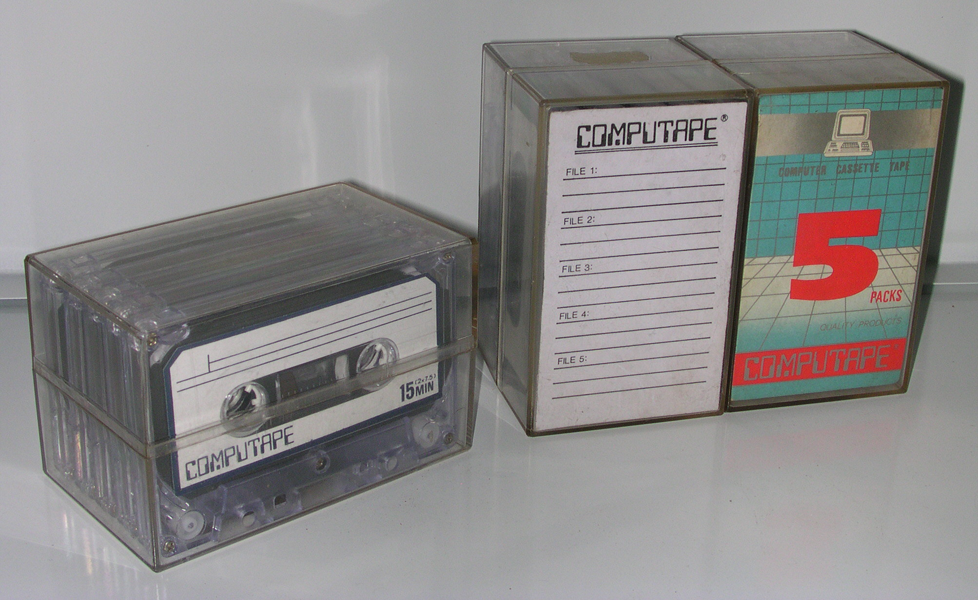 computape data storage medium